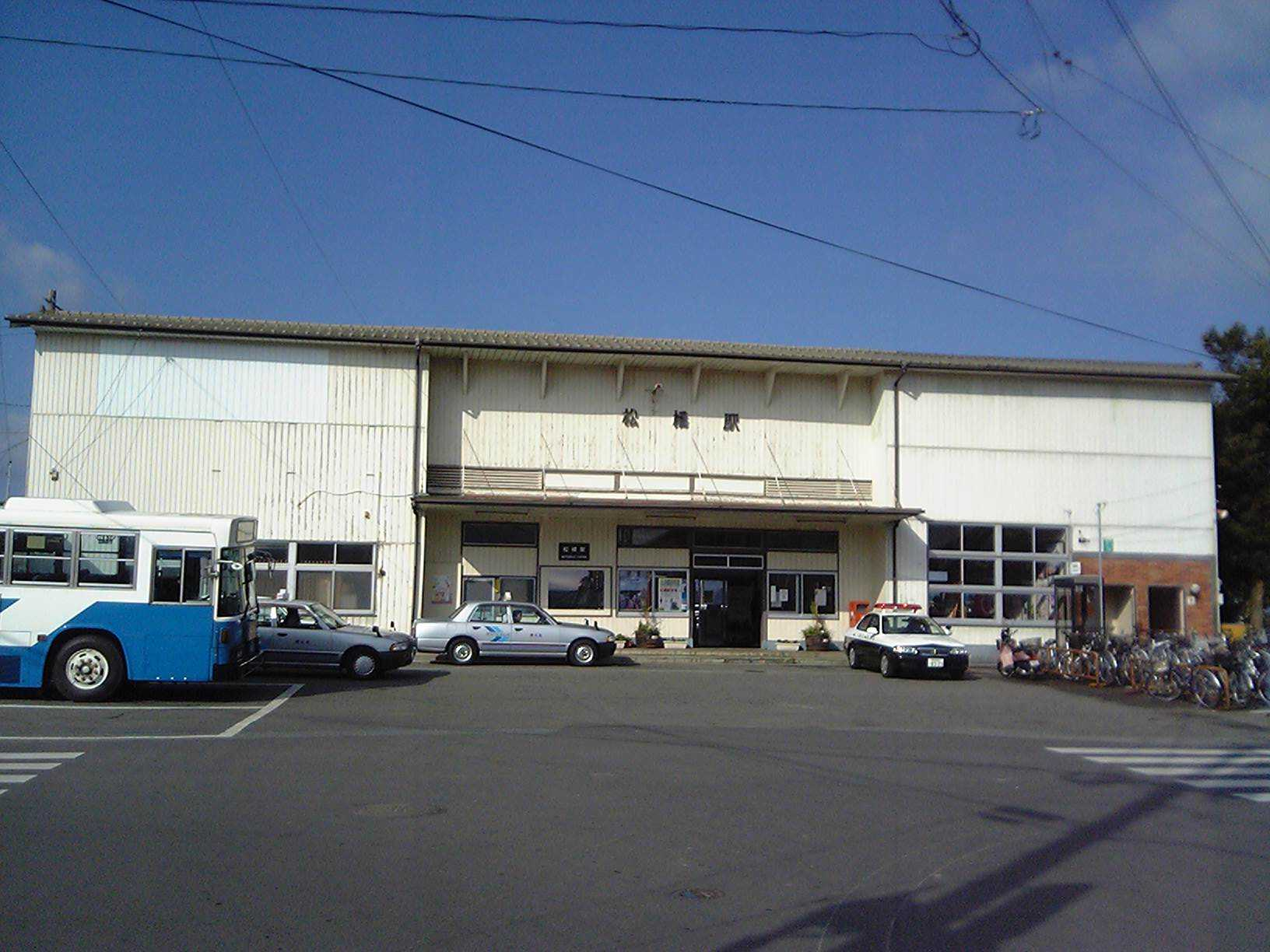 Matsubase Station, Uki, Kumamoto, Japan